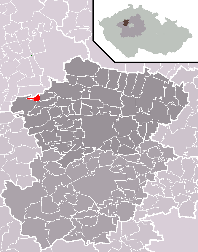 Location of Zichovec municipality within Kladno District and administrative area of Slaný as a Municipality with Extended Competence.